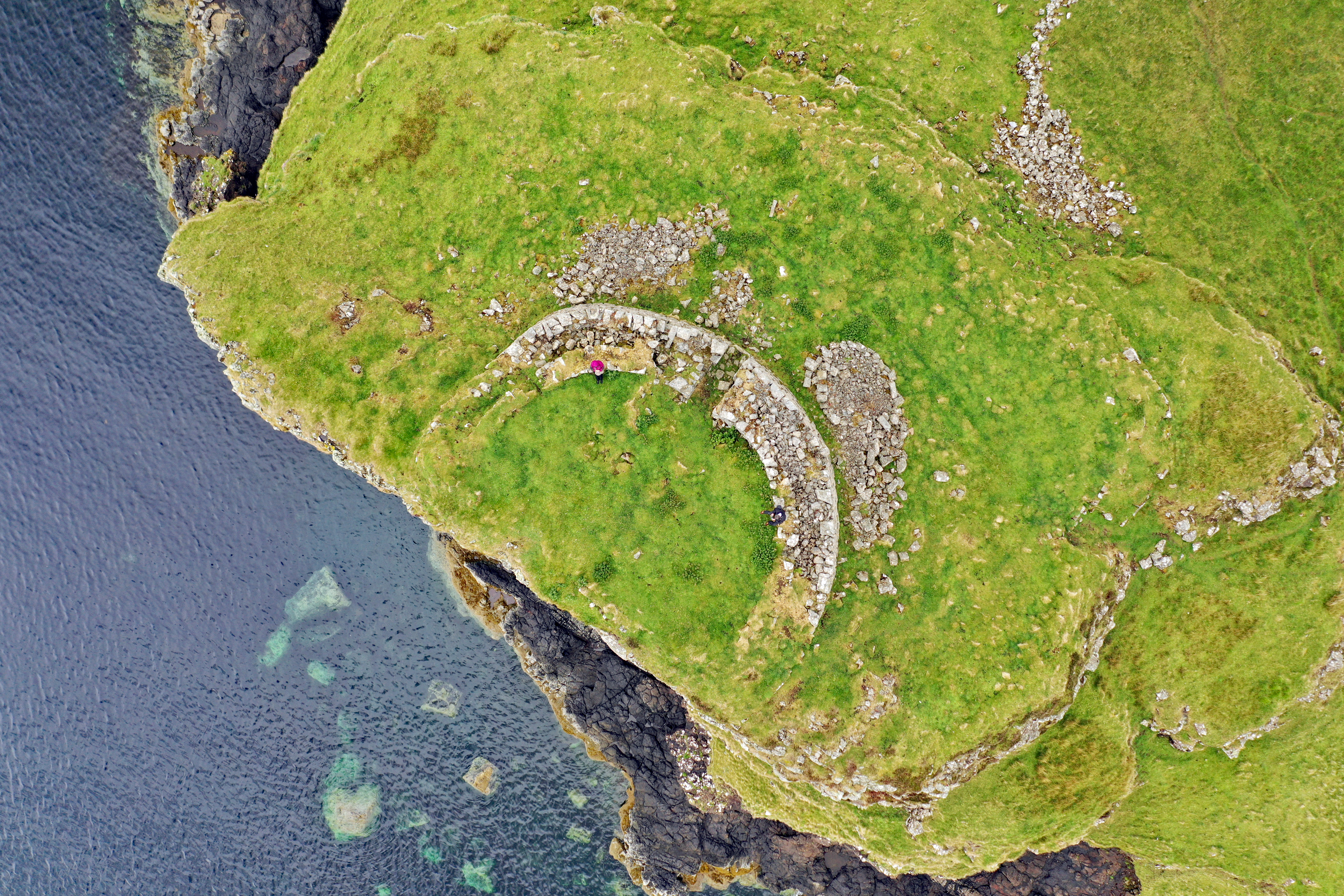 Dun Ardtreck (Isle of Skye, Inner Hebrides, Scotland, UK)